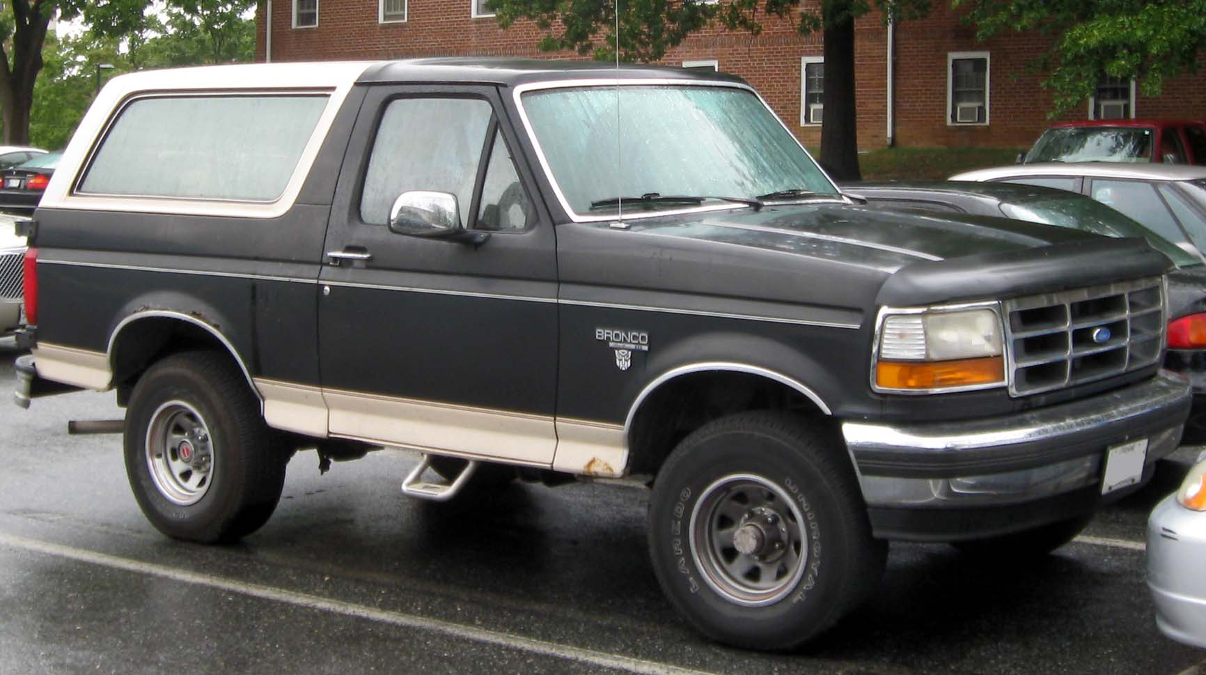 1992-1996 Ford Bronco photographed in College Park, Maryland, USA.